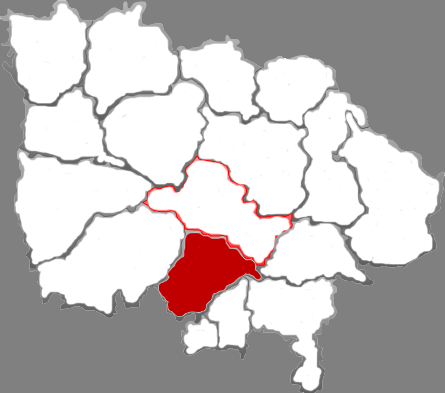 Location of Xiangfen county in Linfen City, China